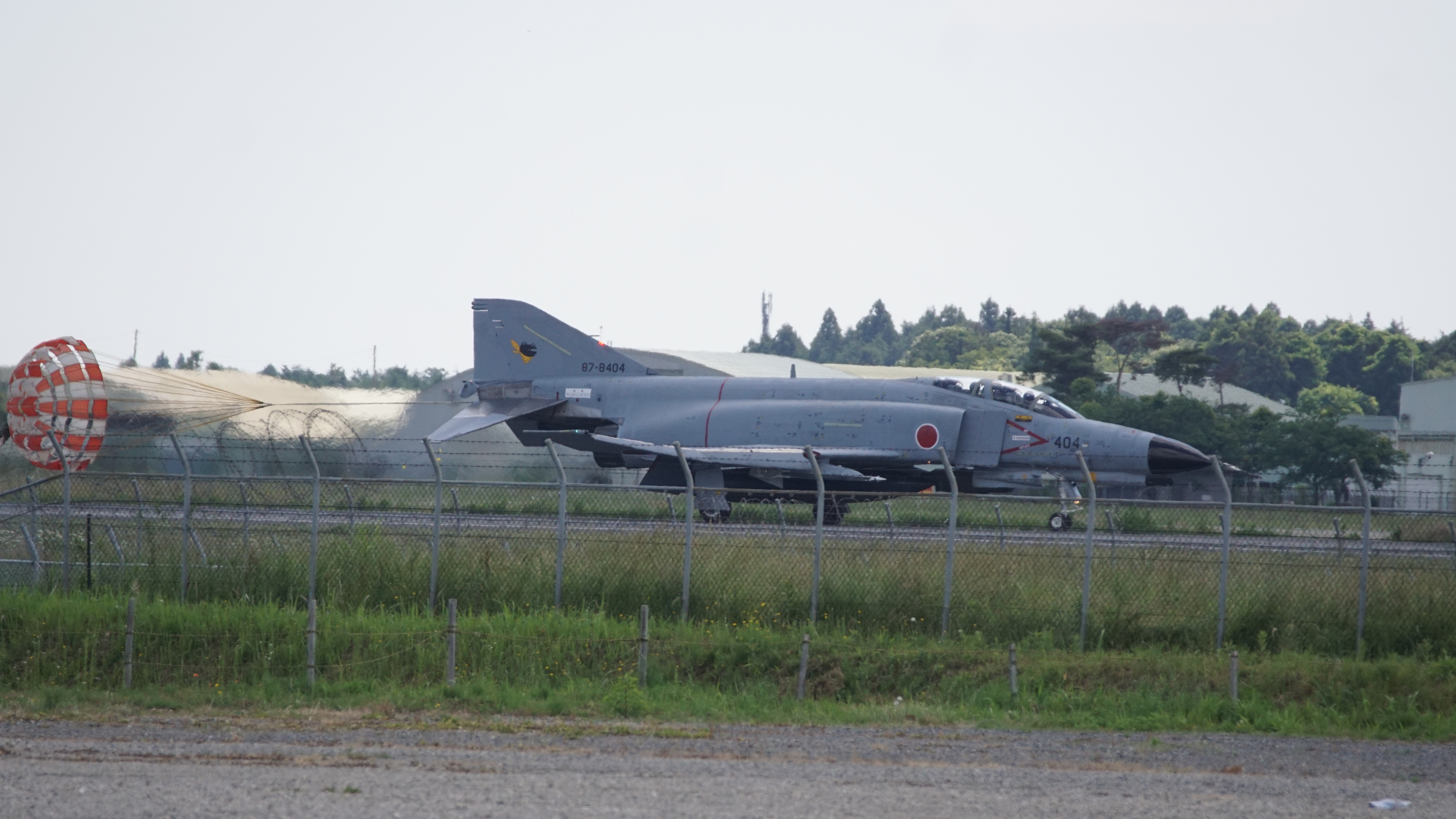 F-4EJ Kai 87-8404 of the 301st Tactical Fighter Squadron landing at Hyakuri Airbase, June 2017